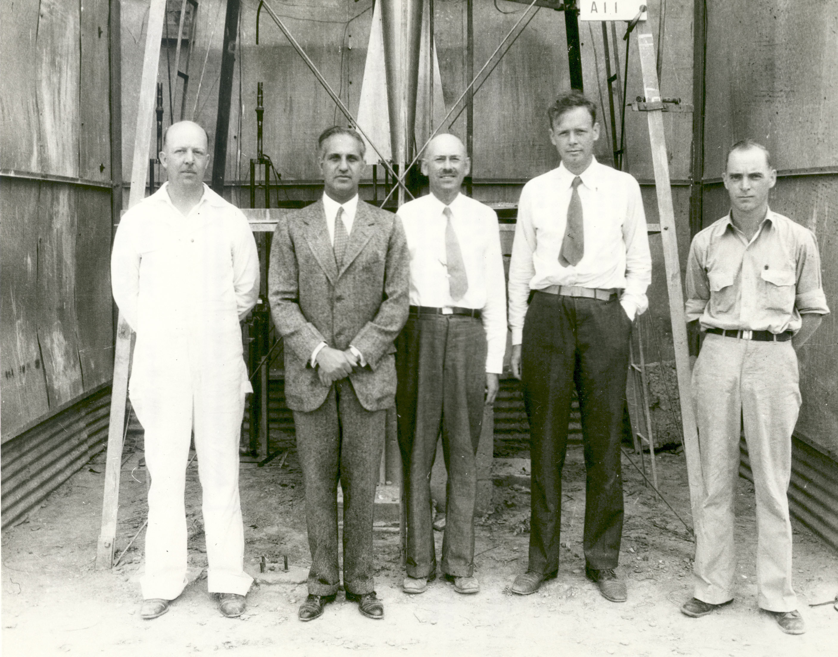 Standing in front of the rocket in the launch tower on September 23, 1935, are (left to right): Albert Kisk, Goddard's brother-in-law and machinist; Harry F. Guggenheim; Dr. Robert H. Goddard; Col. Charles A. Lindbergh and N.T. Ljungquist, machinist. Charles Lindbergh, an advocate for Goddard and his research, helped secure a grant from the Daniel and Florence Guggenheim Foundation in 1930. With that money Goddard and his wife moved to Roswell, New Mexico, where he could conduct research and launch rockets while avoiding the scrutiny and criticism of his colleagues and the press.